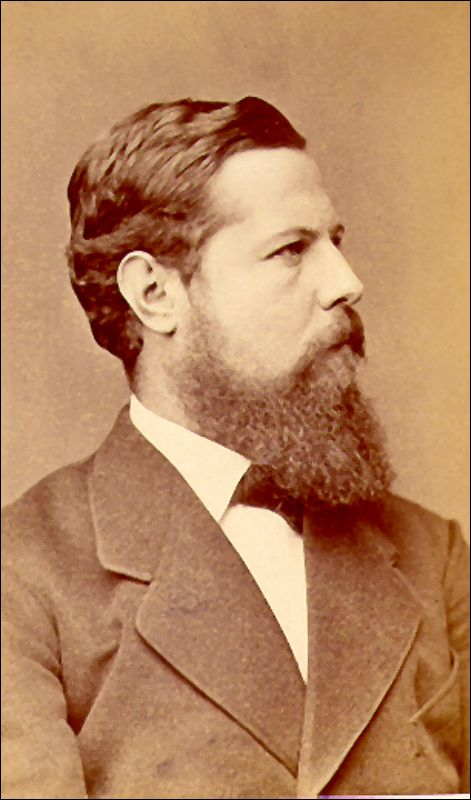 Portrait of Carl Robert (1850–1922). 9 by 5.6 cm